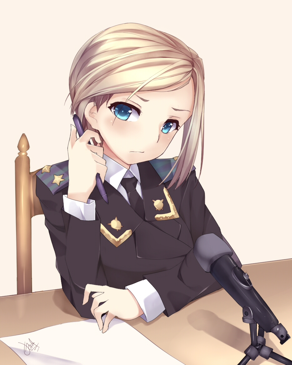 Artwork of Natalia Poklonskaya drawn by BonKiru.